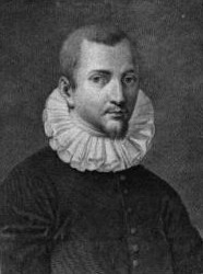 Portrait of Rutilio Manetti, grabado